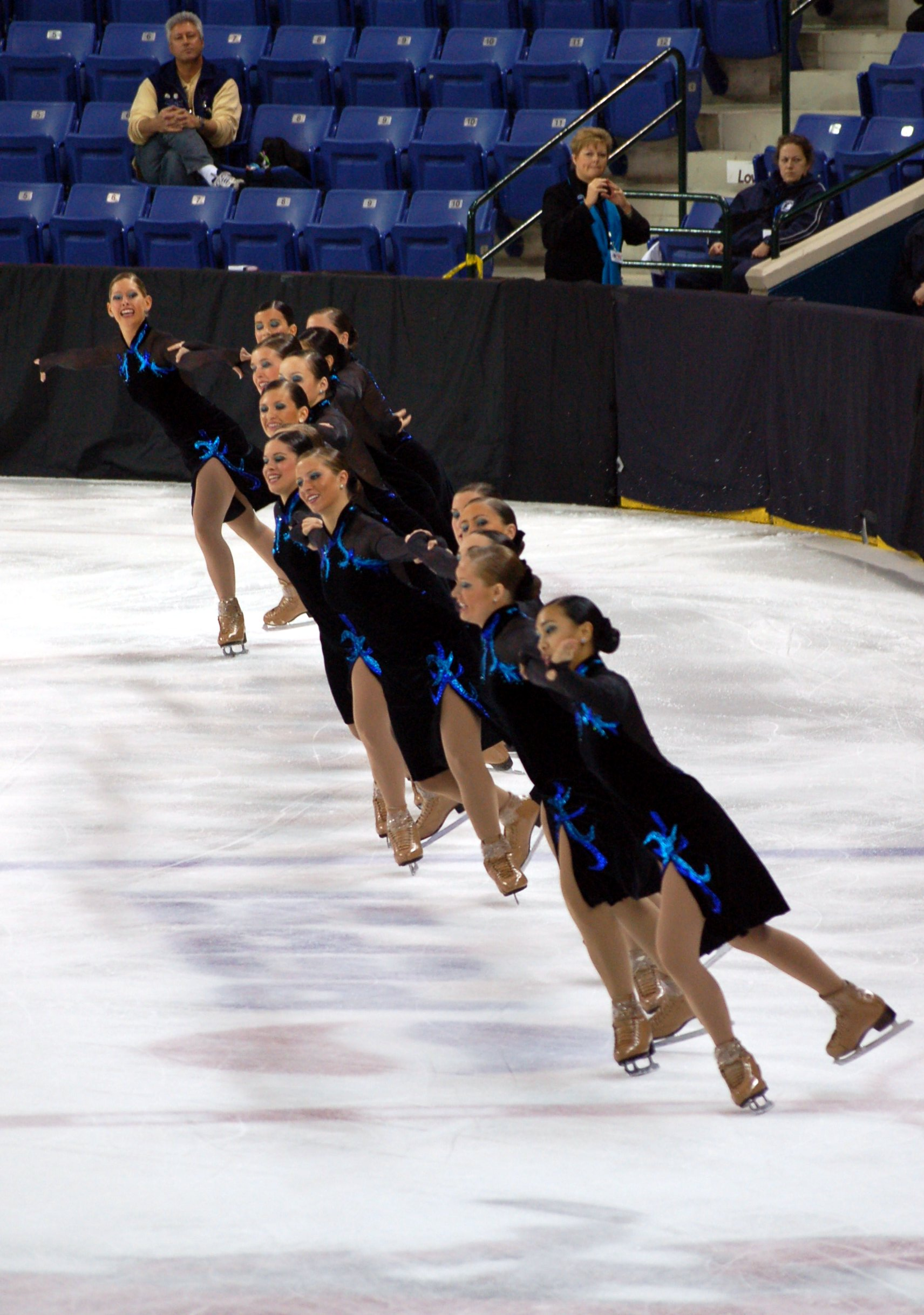 Don't fall down! This line is picking up a lot of forward speed. (Chicago Jazz at the 2007 Colonial Classic, the Junior World Qualifier)